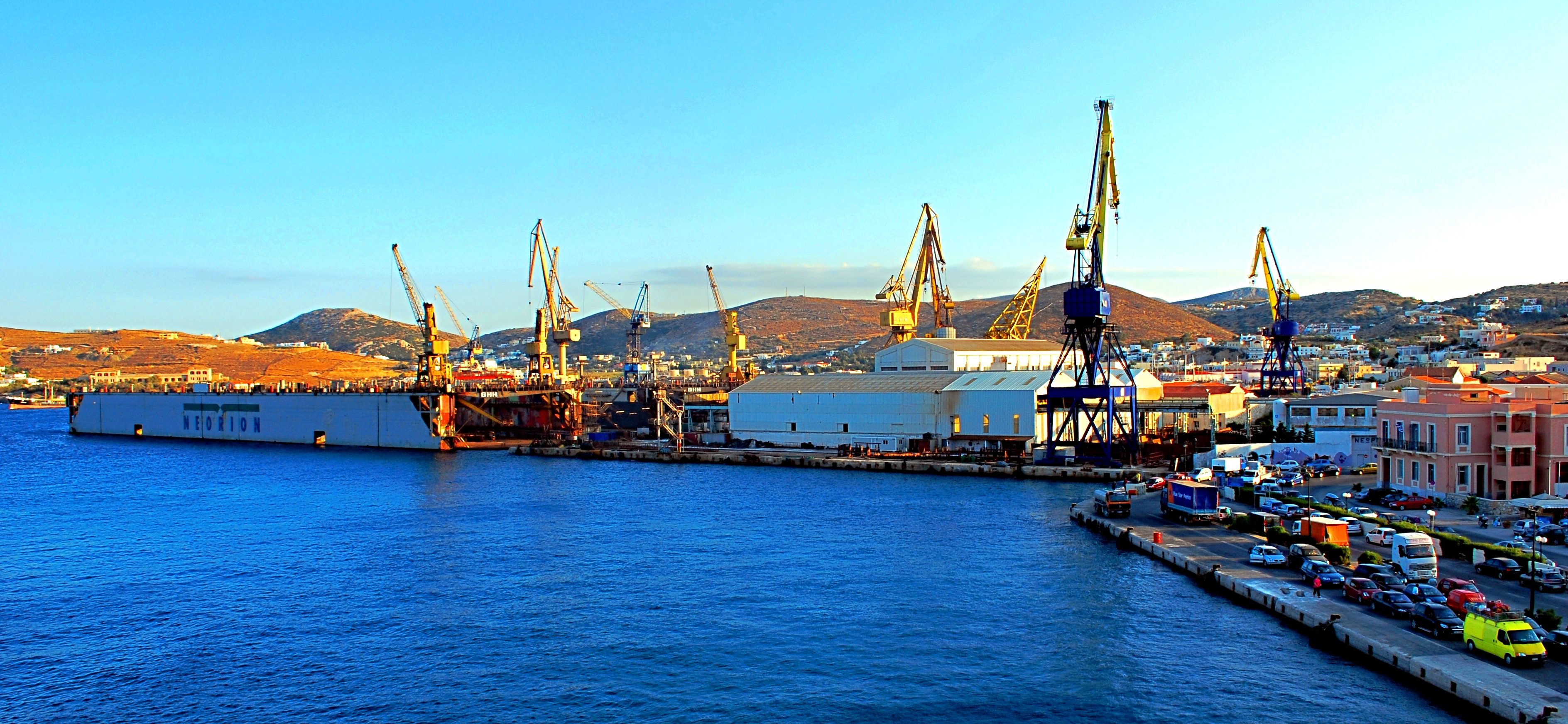 View of the Neorion shipyards at Syros, Greece, 2009.